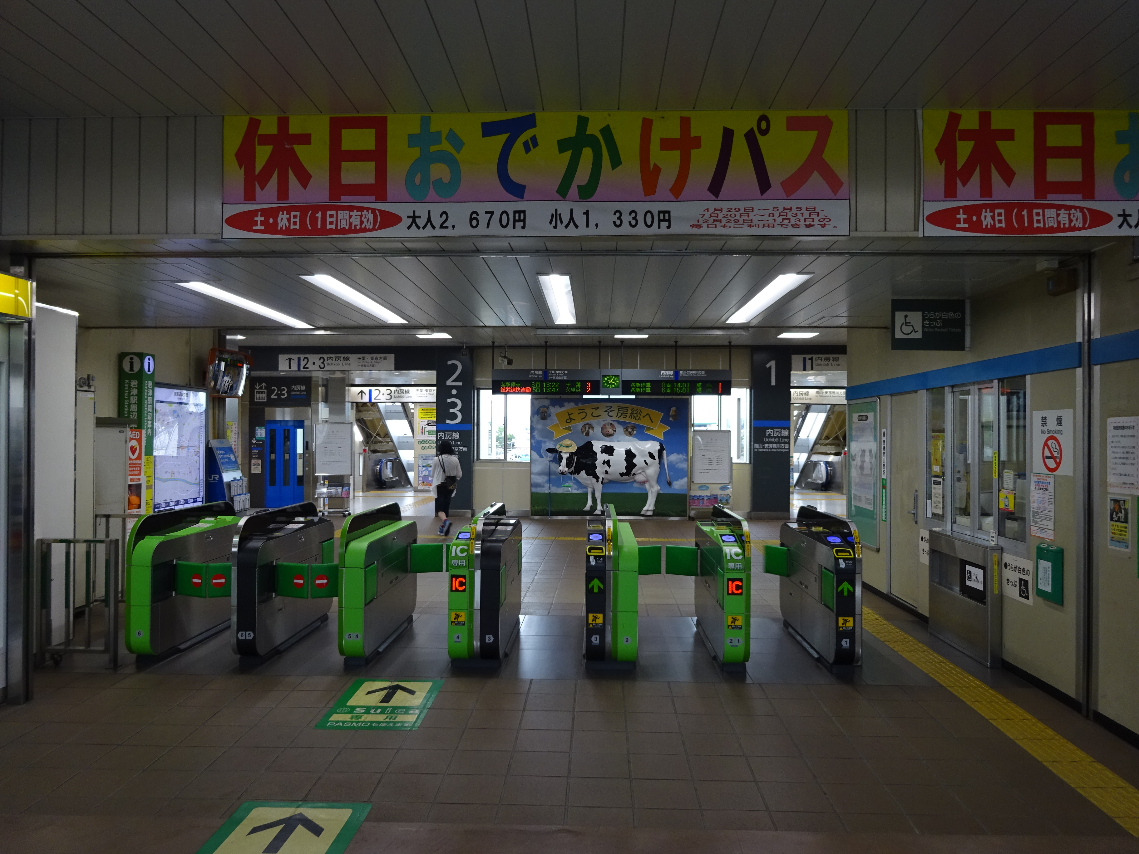 Ticket barriers of Kimitsu Station